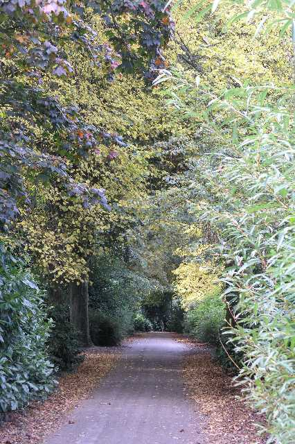 Path in West Park. The autumn colours begin to show. This is the path into West Park from the entrance on King Street. It is lined with a mix of trees, primarily Beech and Lime. The limes have turned while the beech are still green. Six weeks later it looks like this 614566